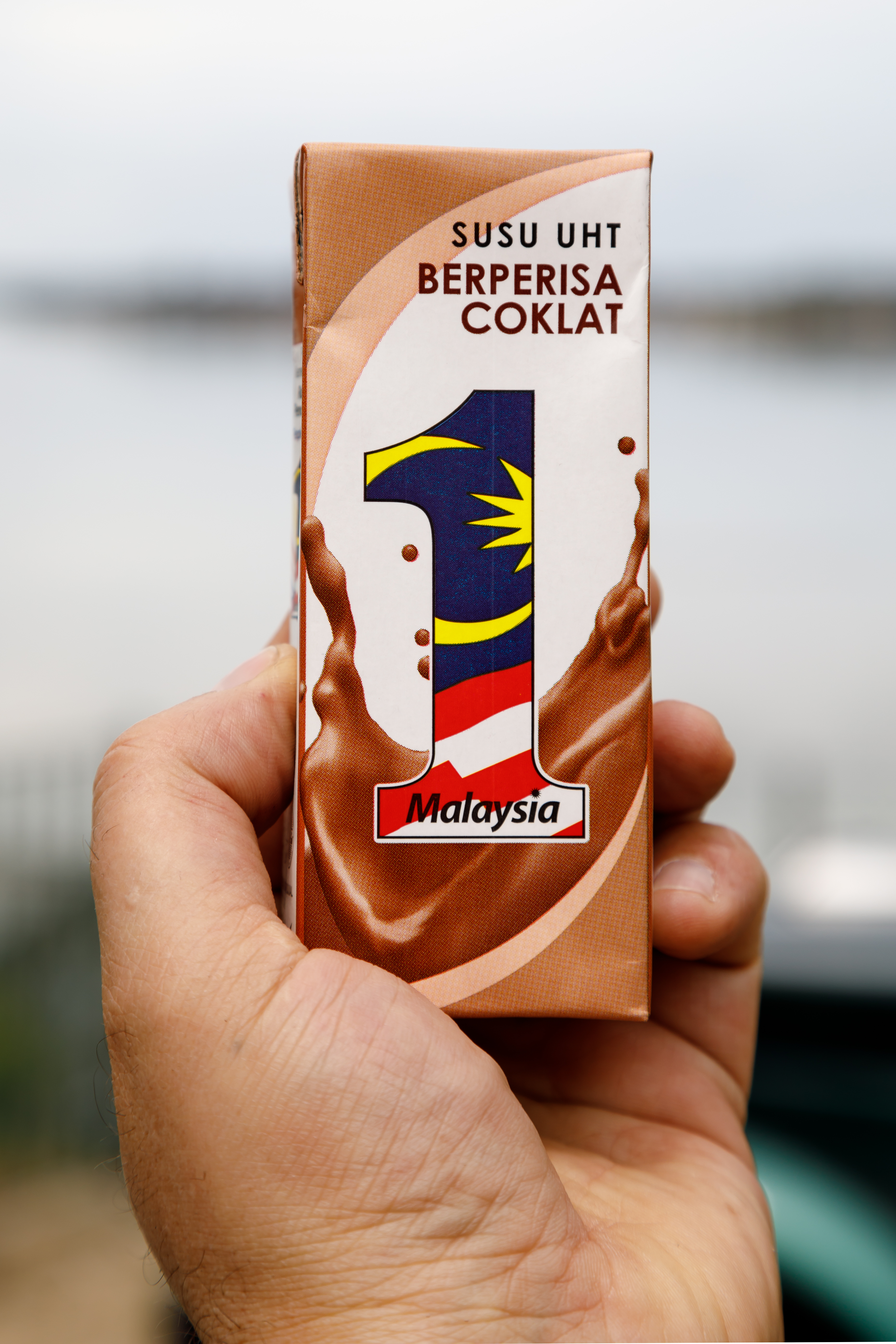 Nongkolud, Tuaran, Sabah, Malaysia: "One Malaysia" School Milk, provided as part of a Government Program to enhance health of school children